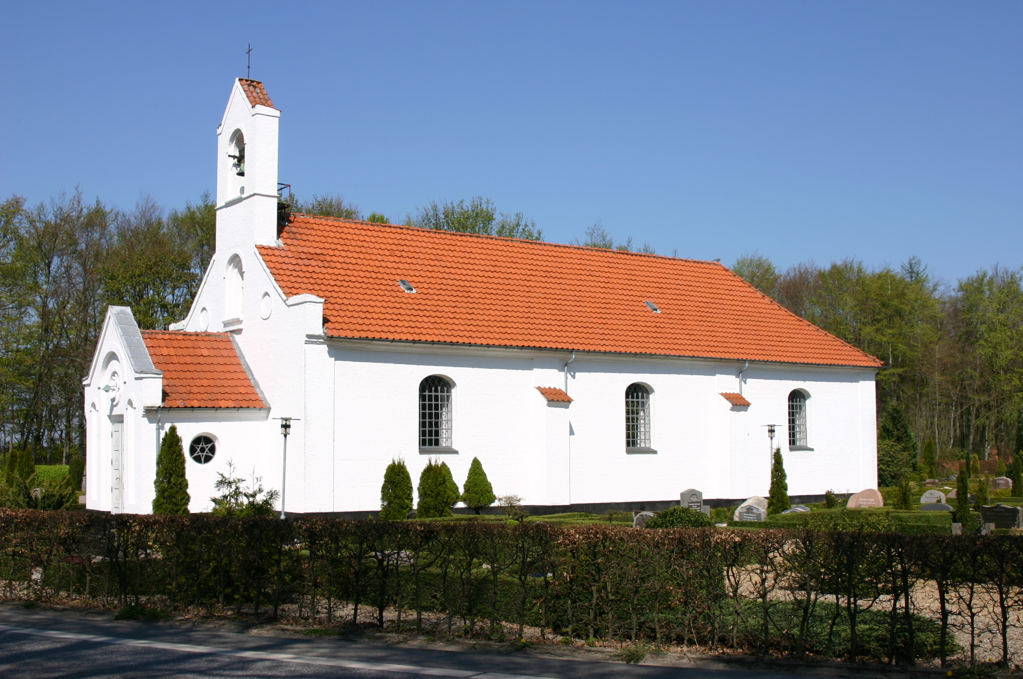 Frederiks Church in the vicinity of Viborg, Denmark Frederiks Kirke mellem Viborg og Karup